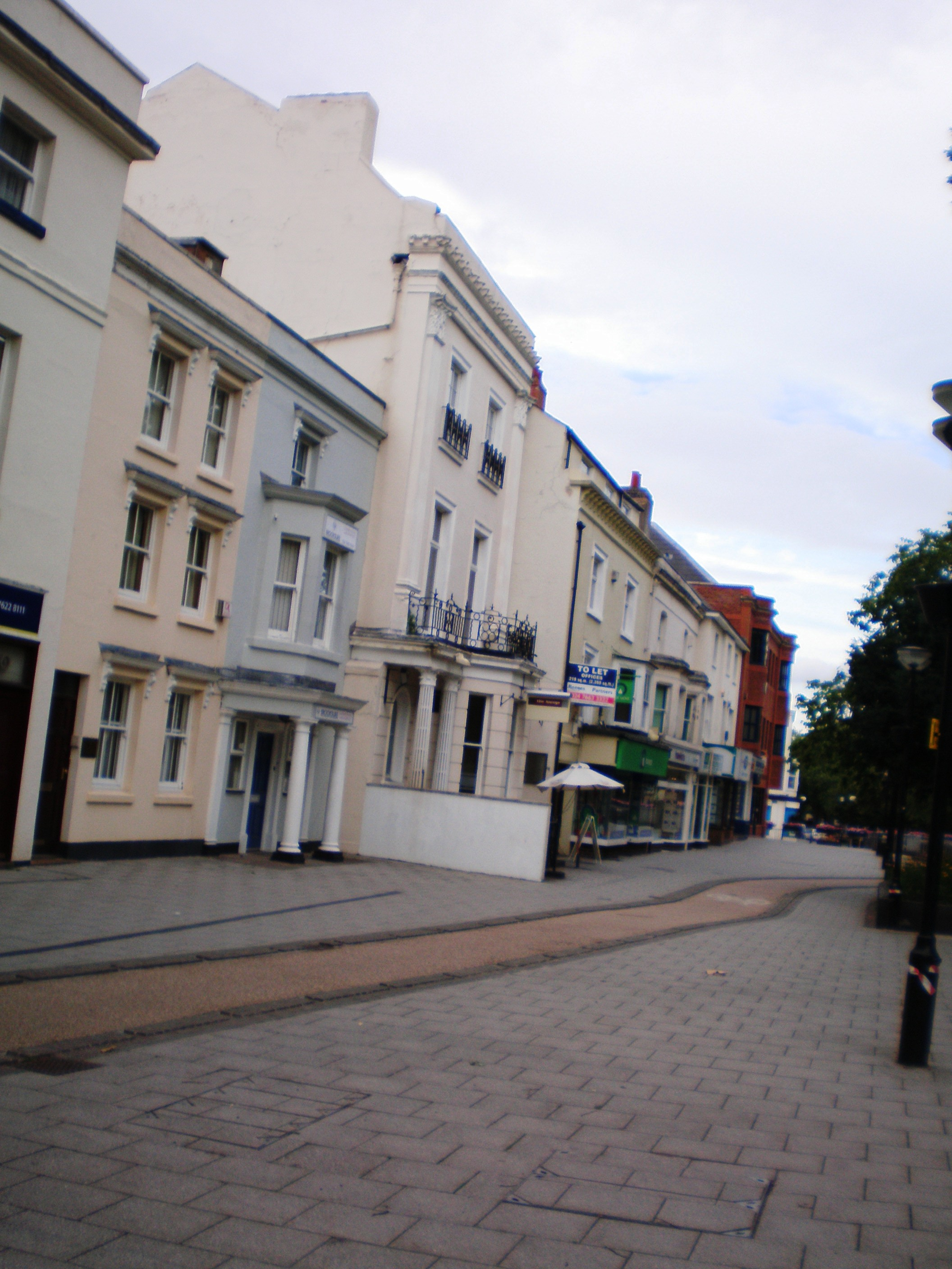 Street in Coventry, UK